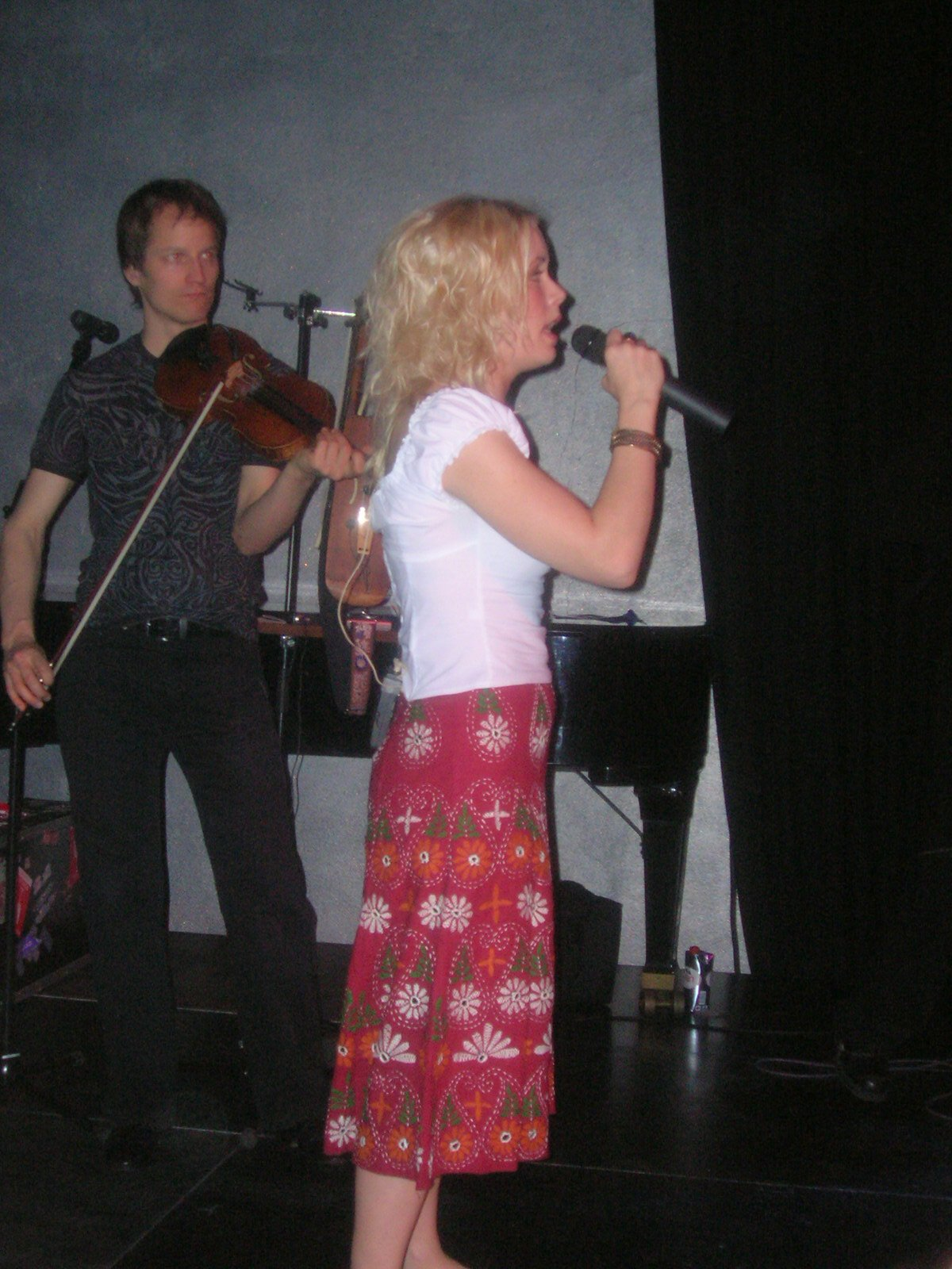 Johanna Virtanen and Lassi Logren of the Finnish folk-pop band Värttinä